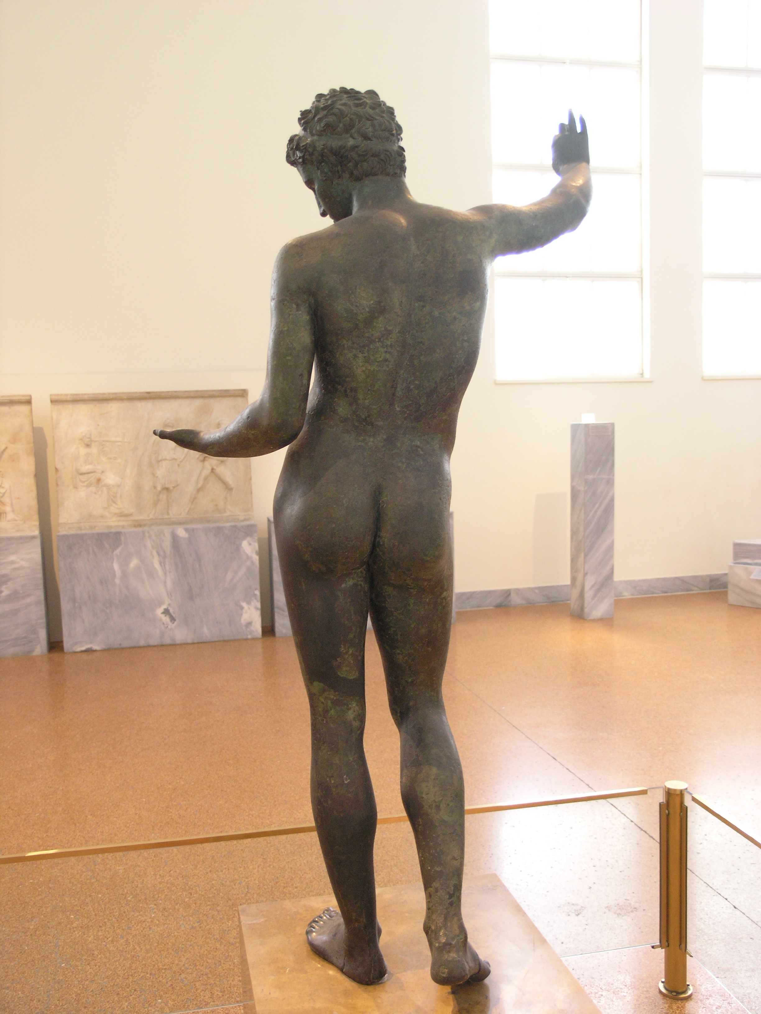 Marathon Youth or Ephebe of Marathon. Bronze statue of a young athlete, found in the sea near Marathon (Attic coast). The left hand was replaced at a later date by another shaped as a lamp. Work of the Praxiteles school, ca. 340-330 B.C.